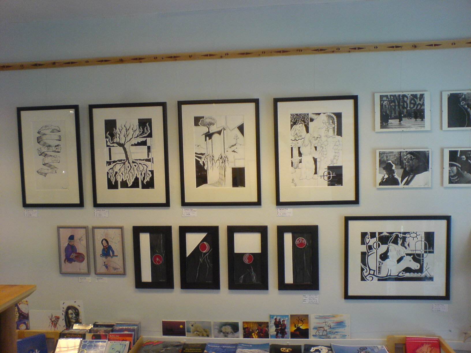 Pictures of Párvusz in Gallery Arppa, in Tromsö, Norway.